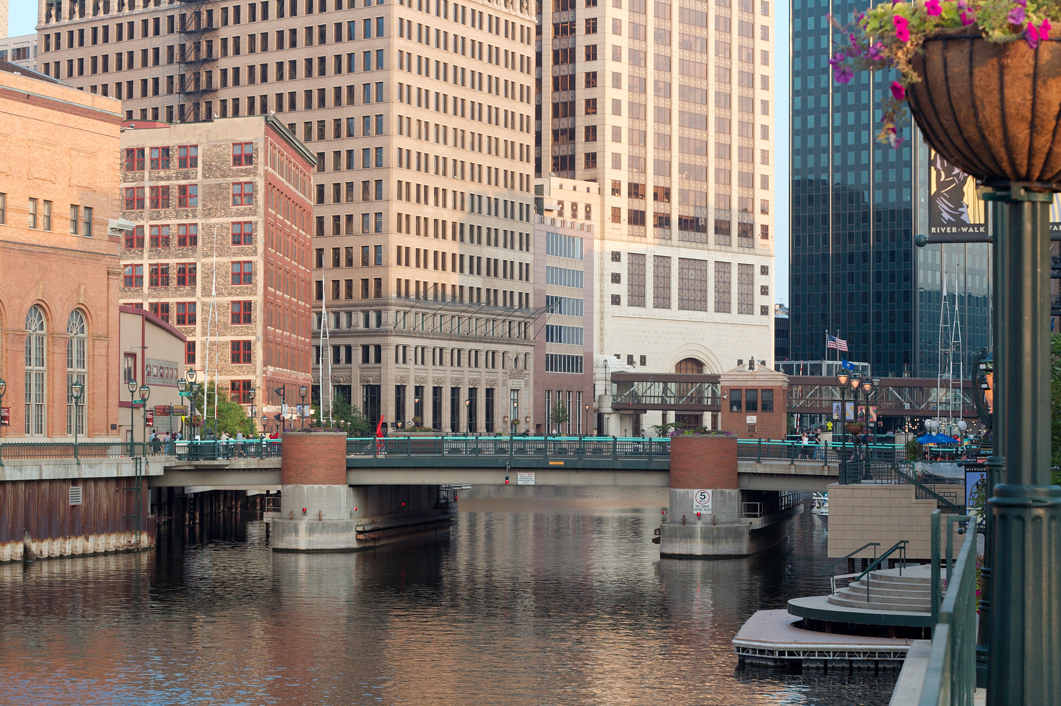 Downtown Milwaukee, Wisconsin, viewed looking south on the Milwaukee River from the Riverwalk. The Wells Street Bridge is in the foreground. It was built in 1985, replacing an older bridge at the same site.